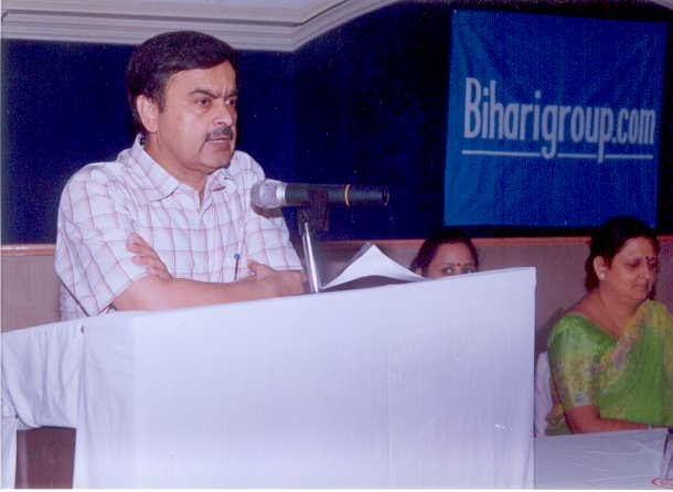 Abhayanand